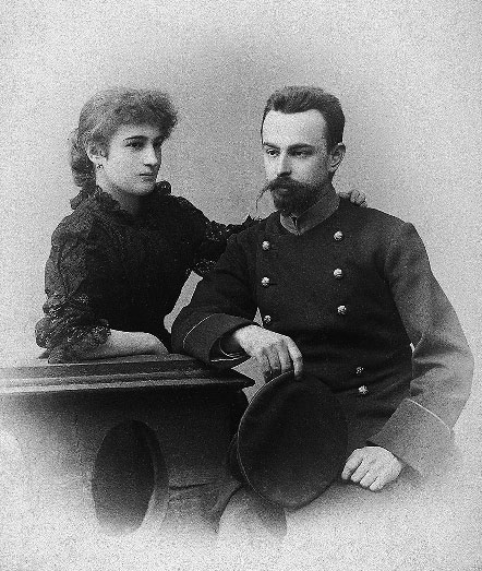 Russian poet Mirra Lokhvitskaya and her husband Eugeny Gilbert